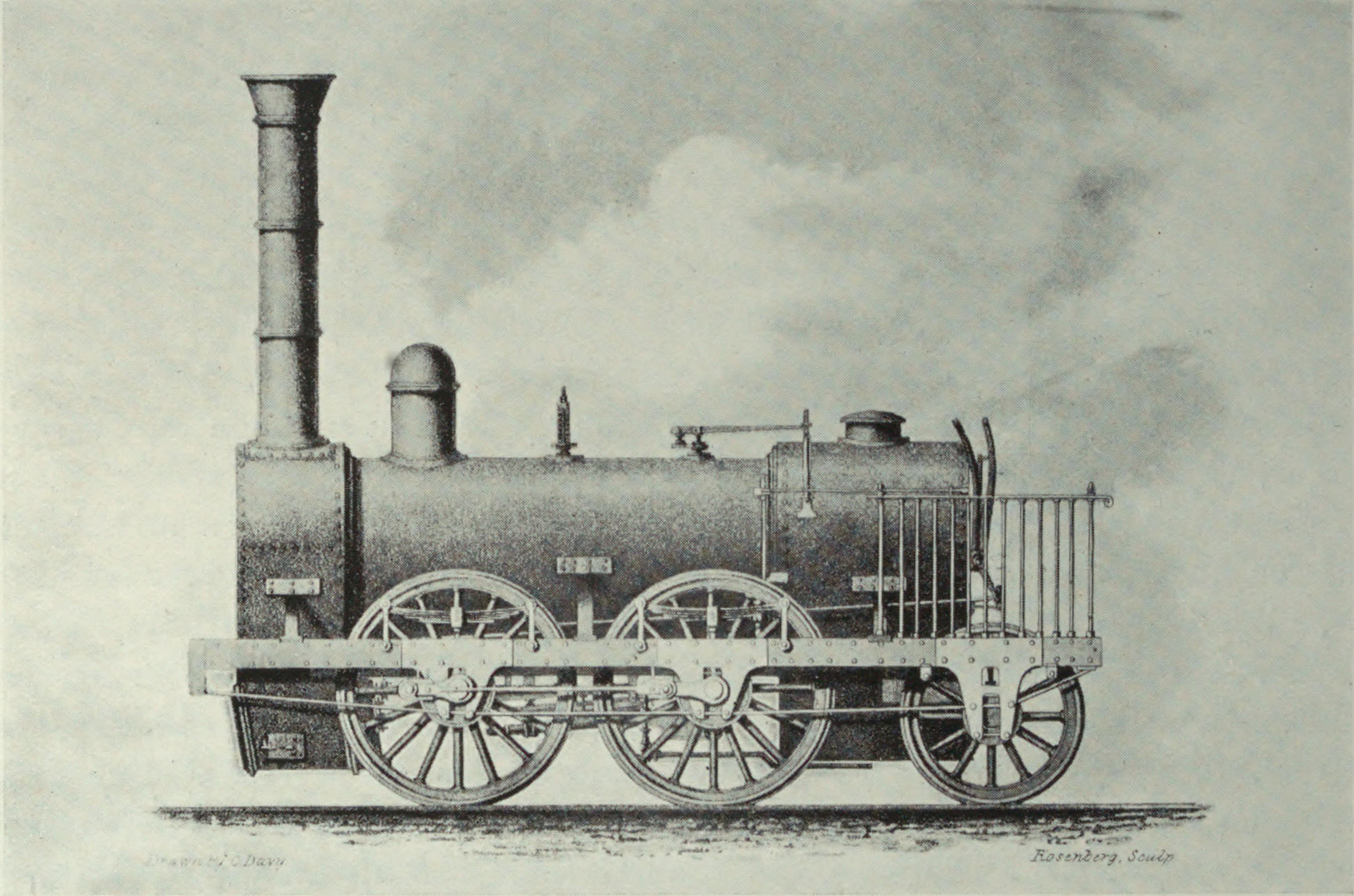 A sketch published in 1838 of steam locomotive that ran on the Stanhope and Tyne Railway